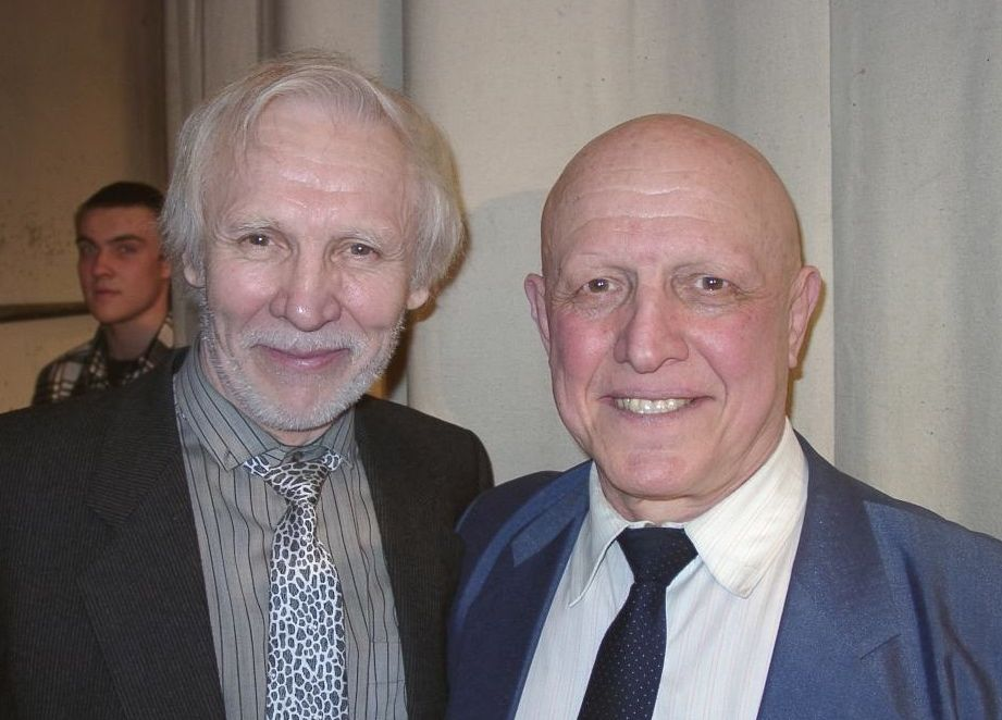 Alfred Karashchuk and Ilya Tsipursky. March 28, 2003, MEI. Picture taken VD Ilyin